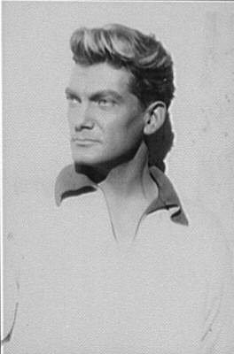 French actor Jean Marais in 1949